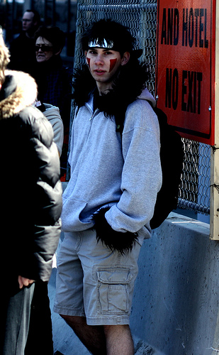 Shat! I am caught taking pictures of him